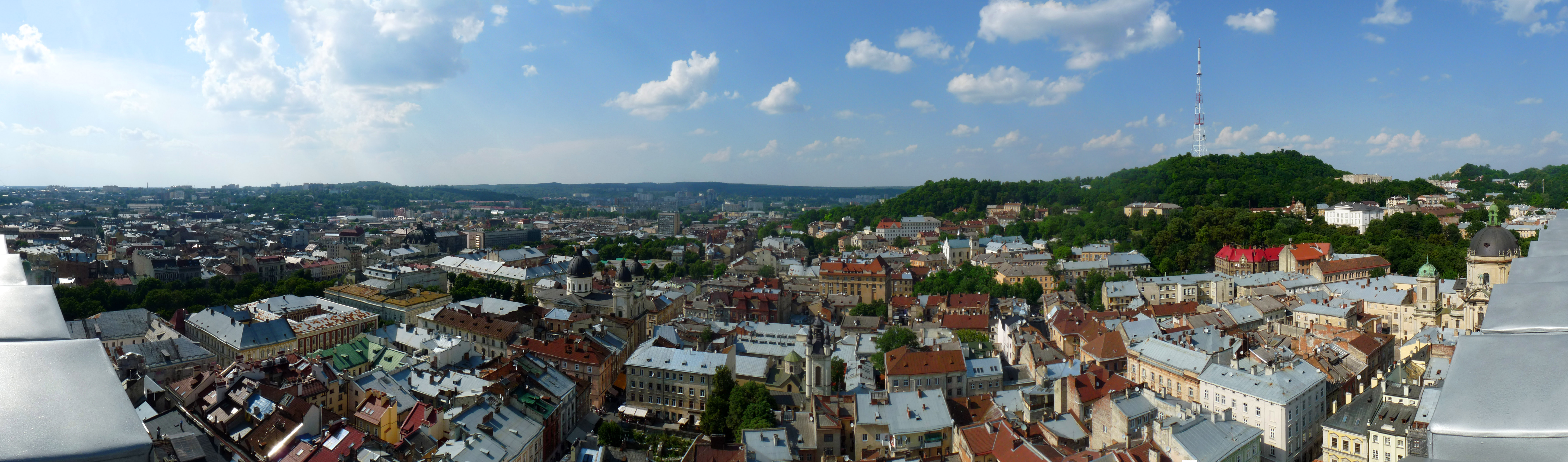 The view from the Lviv Town Hall towards the north